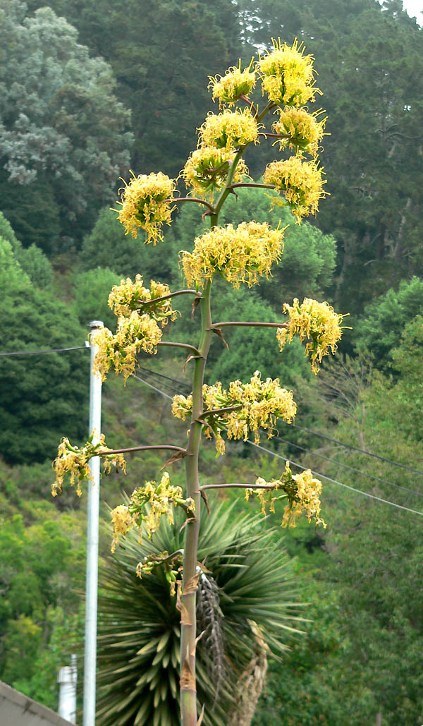 Photo of Agave flexispina at the University of California Botanical Garden